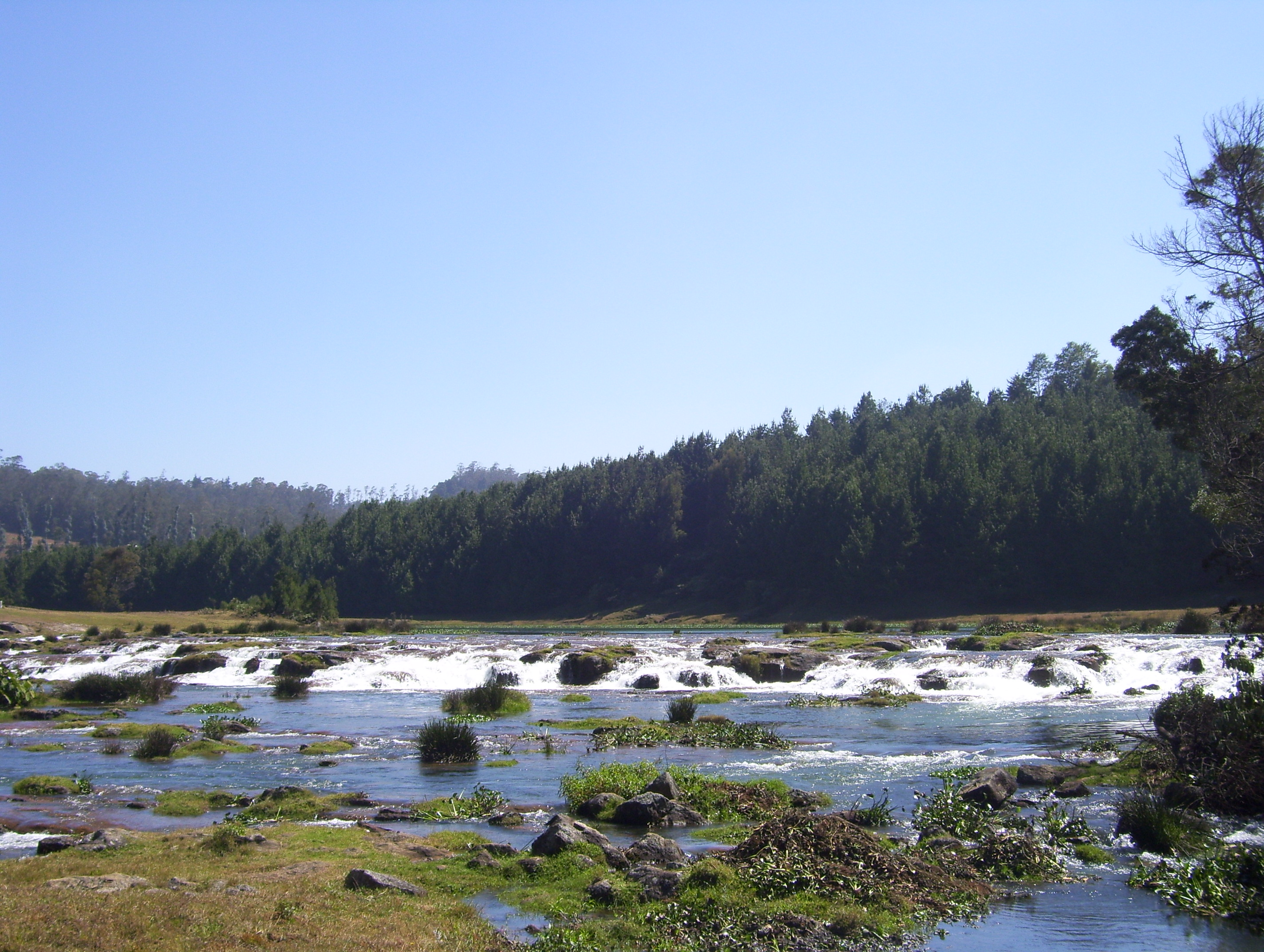 The Pykara Water falls, located upstream to the Pykara Lake is a tourist spot.